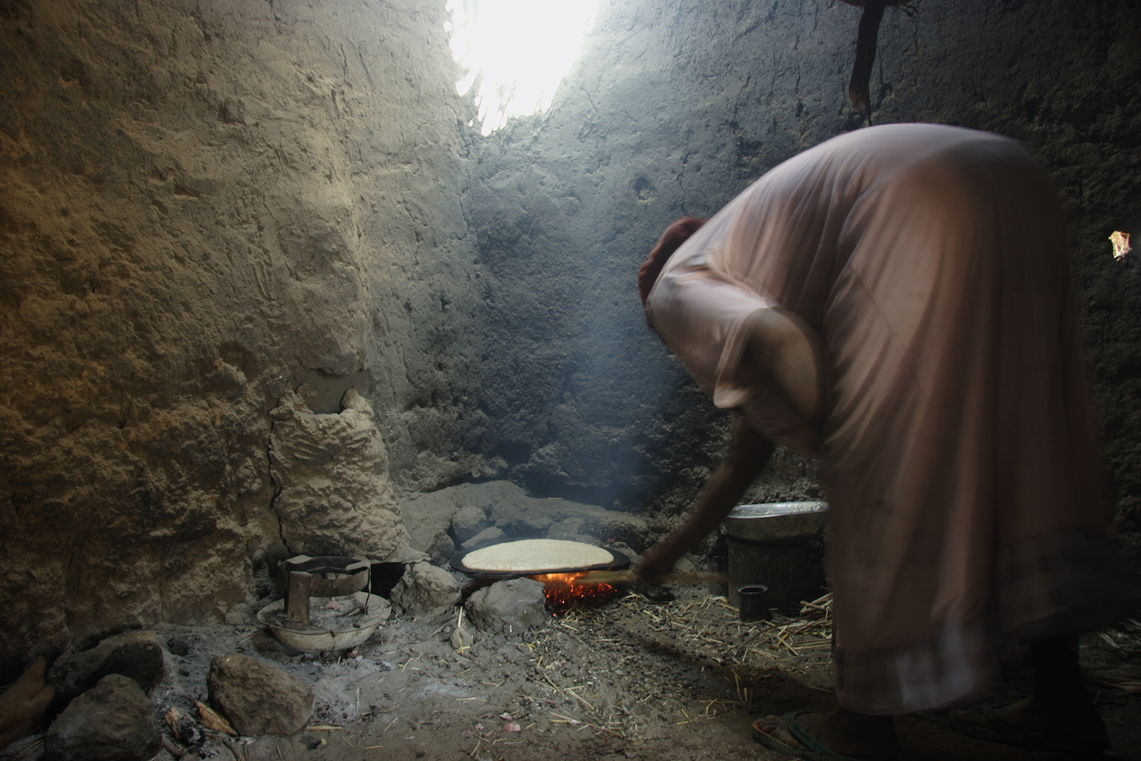 Manasir Woman preparing Qurasah (قراصة), the daily bread on Sherari Island in Dar al-Manasir in Northern Sudan (c) GFDL David Haberlah (Homepage of David Haberlah, ) Source: here